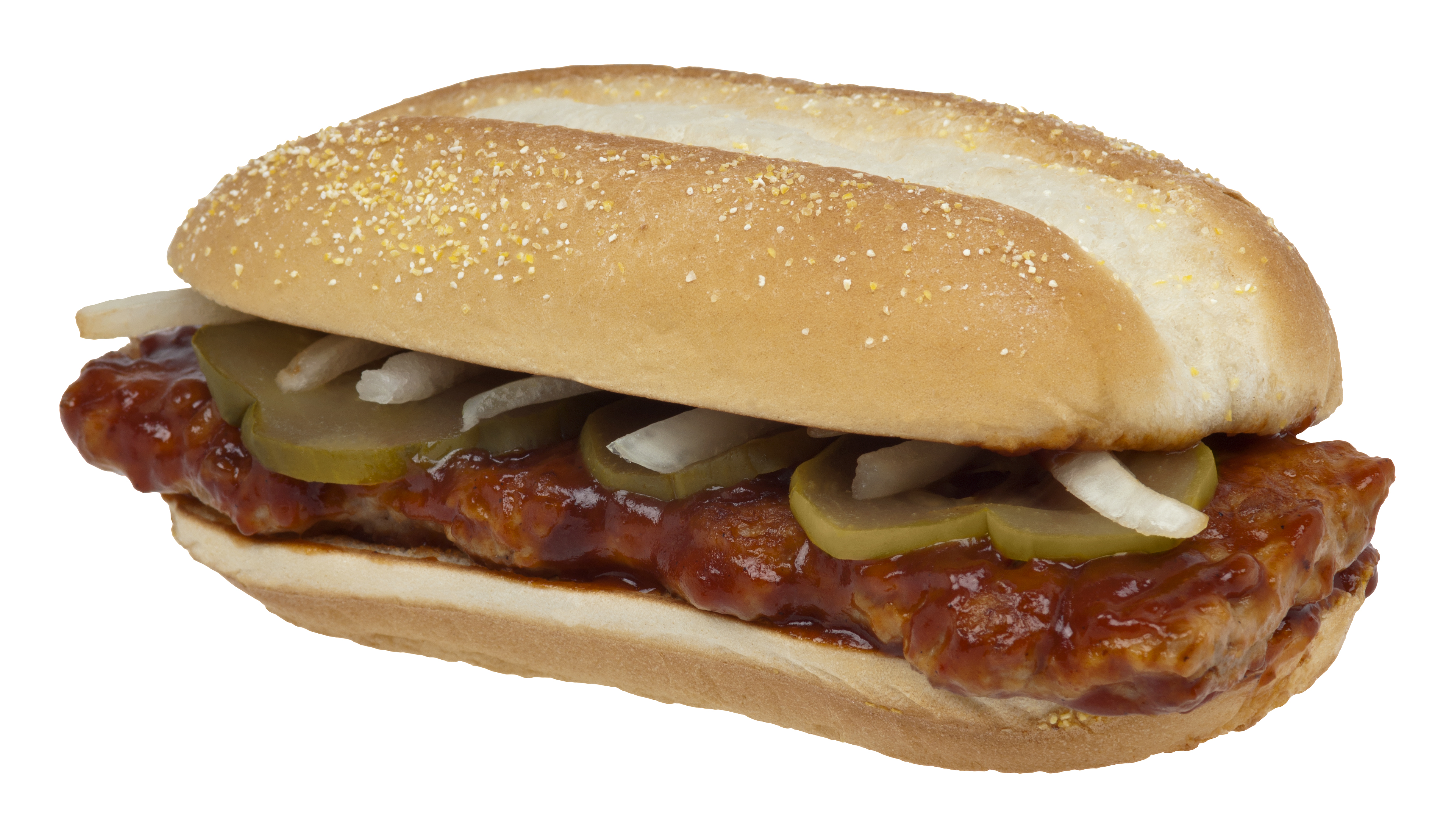 A McDonald's McRib sandwich, as bought in America.